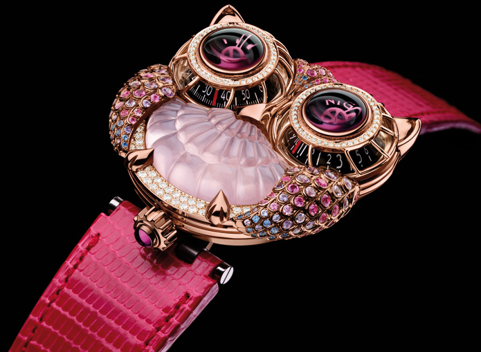 MB&F JWLRYMACHINE Pink